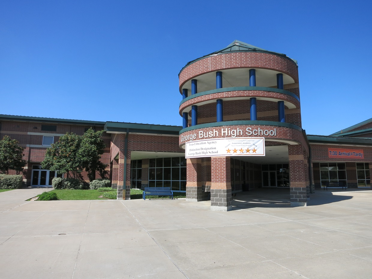 Photo shows George Bush High School at 6707 FM 1464, Sugar Land, TX 77407. It is part of the Fort Bend Independent School District. View is toward the northeast.